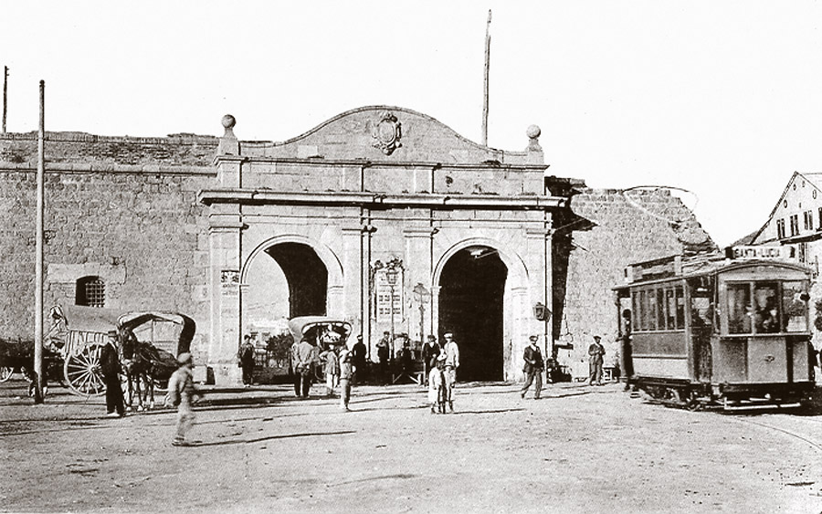 The San José Gate, monumental entrance of the 18th century in the Spanish city of Cartagena located in what is now Plaza de las Puertas de San José. It was demolished together with the other gates present in the city, in 1916 to facilitate the works of ensanche, during the tenure of mayor Ángel Bruna and with the authorization of a royal order issued by king Alfonso XIII. Several wagons and electric tram connecting the old town with the extramural neighborhood of Santa Lucía is also seen in the photograph.